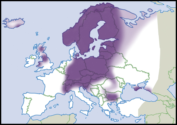 Vertigo alpestris Alder, 1838. Distribution in Europe, scientific state of knowledge of 2012. Source description in English. Light colour indicated rare occurrences or regions where the species could eventually be expected to occur. Dark colour indicated relatively reliable occurrences, as well as regions where the species was expected to occur, and where the species was not known to be extremely rare. Dark colour indications were not necessarily based on published records. Species summary in AnimalBase